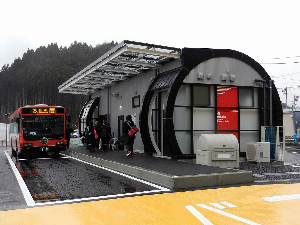 JR East Kesennnuma Line BRT Shizugawa Station